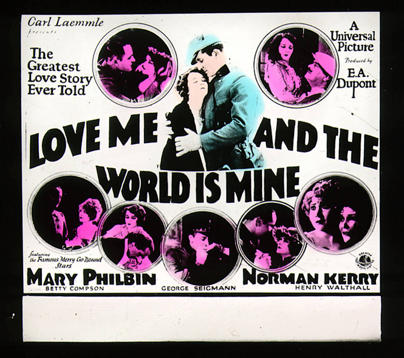 Love Me and the World Is Mine (1928) is an American silent romantic film directed by Ewald André Dupont (E.A. Dupont) and released by Universal Pictures. This is a pre 1978 lantern slide with no copyright claim or copyright marks on it, thus public domain.